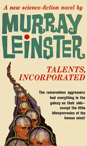 Talents Incorporated book cover - Murray Leinster (William Fitzgerald Jenkins)